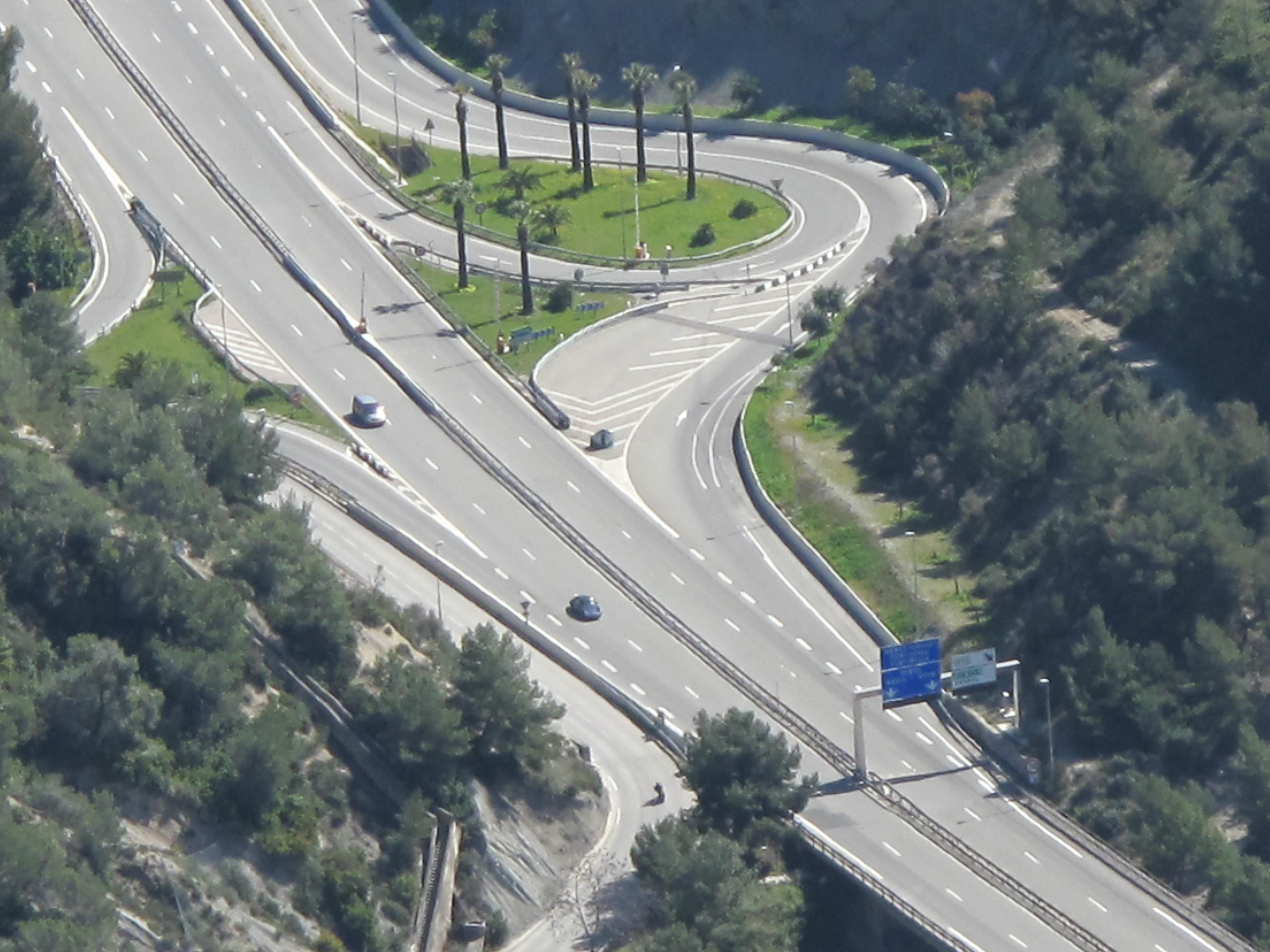 Exit to Menton on the french highway A8, seen from the village of Sainte-Agnès, Alpes-Maritimes, France